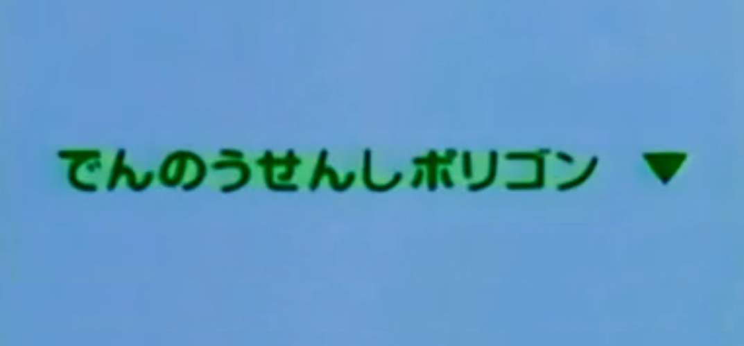 The title card for "Dennō Senshi Porygon" (でんのうせんしポリゴン).